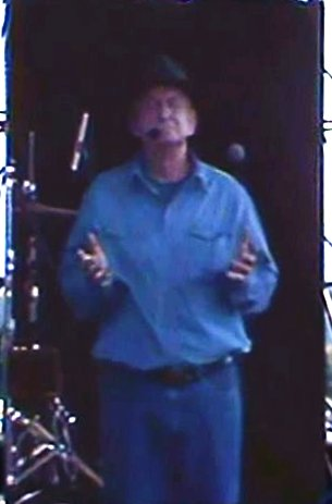 Angus Buchan at Mighty Men 2010